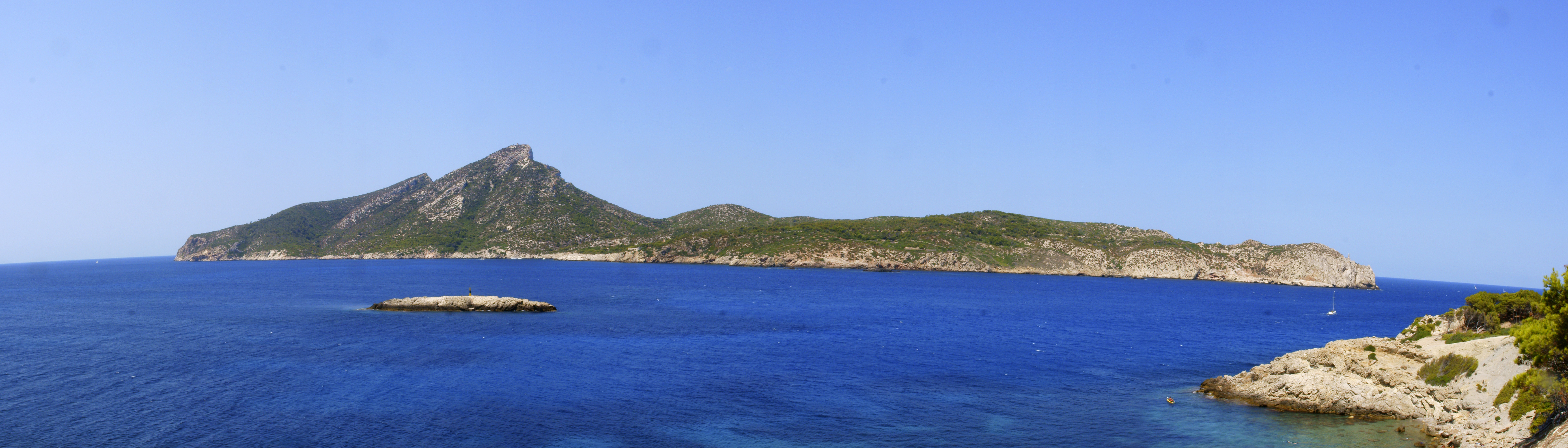 panorama view of Sa Dragonera, Mallorca